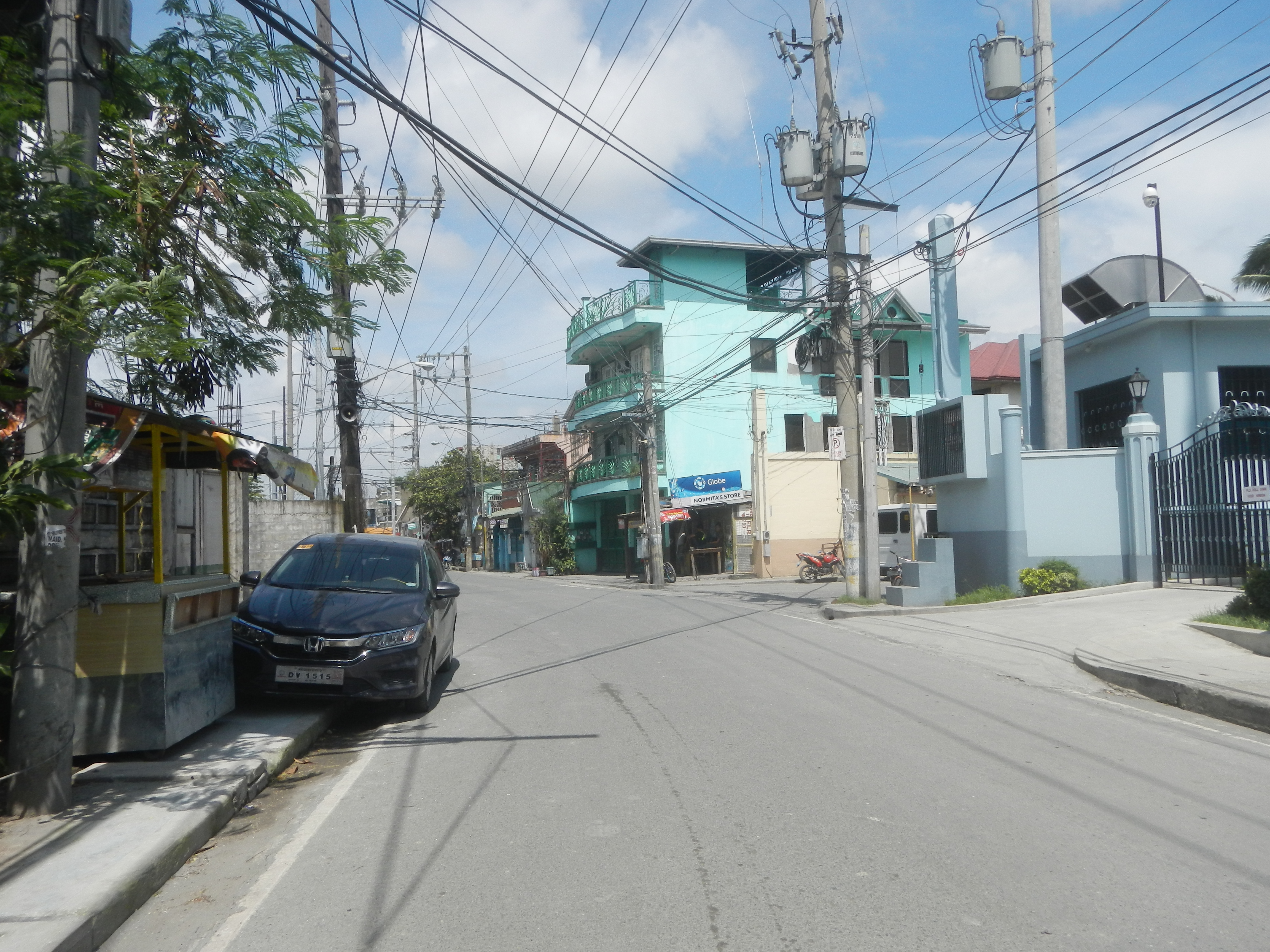 Taguig River Napindan River (Napindan Channel) Napindan, Taguig City Ibayo Tipas,Taguig City Barangay Ibayo-Tipas 14°32'15"N 121°5'18"E Napindan 14°32'4"N 121°5'53"E Taguig City Napindan Bridge (Pasig) 14°32'6"N 121°6'8"E Taguig River Napindan Hydraulic Control Structure or NHCS Pasig River (Napindan Channel) (Note: Judge Florentino Floro, the owner, to repeat, Donor Florentino Floro of all these photos hereby donate gratuitously, freely and unconditionally all these photos to and for Wikimedia Commons, exclusively, for public use of the public domain, and again without any condition whatsoever).